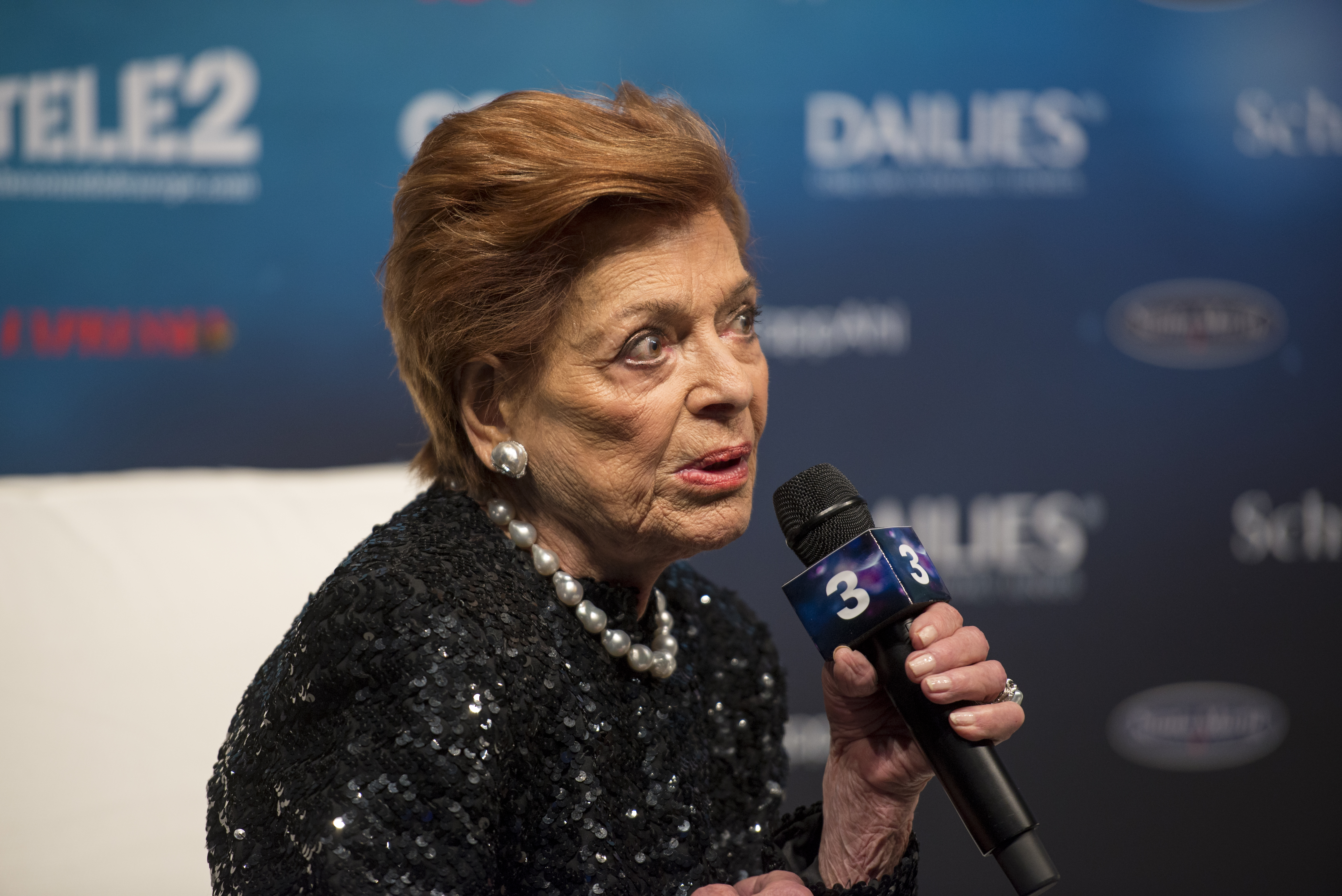 Lys Assia during the Eurovision Song Contest 2016 in Stockholm. (Help translate this text)